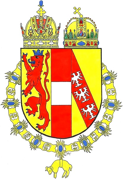 Personal coat of arms of Francis Joseph I. (1830–1916), Emperor of Austria and Apostolic King of Hungary, approved by His Majesty's Assent Vienna 30 July 1916. Drawing by Gerd Hruška ( For further information on this coat of arms see Arno Kerschbaumer, Nobilitierungen unter der Regentschaft Kaiser Franz Joseph I. / I. Ferenc József király (1914–1916), Graz 2017 (ISBN 978-3-9504153-2-2), p. 79.